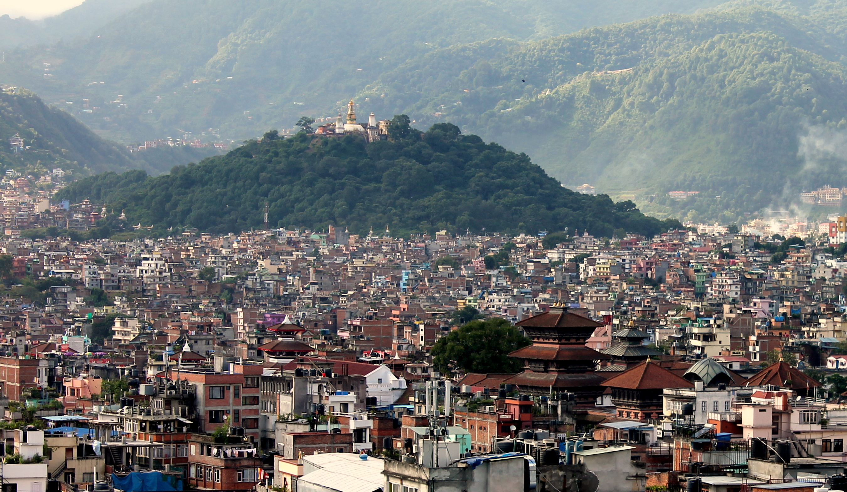 Swayambhunath sits atop a hill overlooking a mosaic of scattered houses and urban areas.